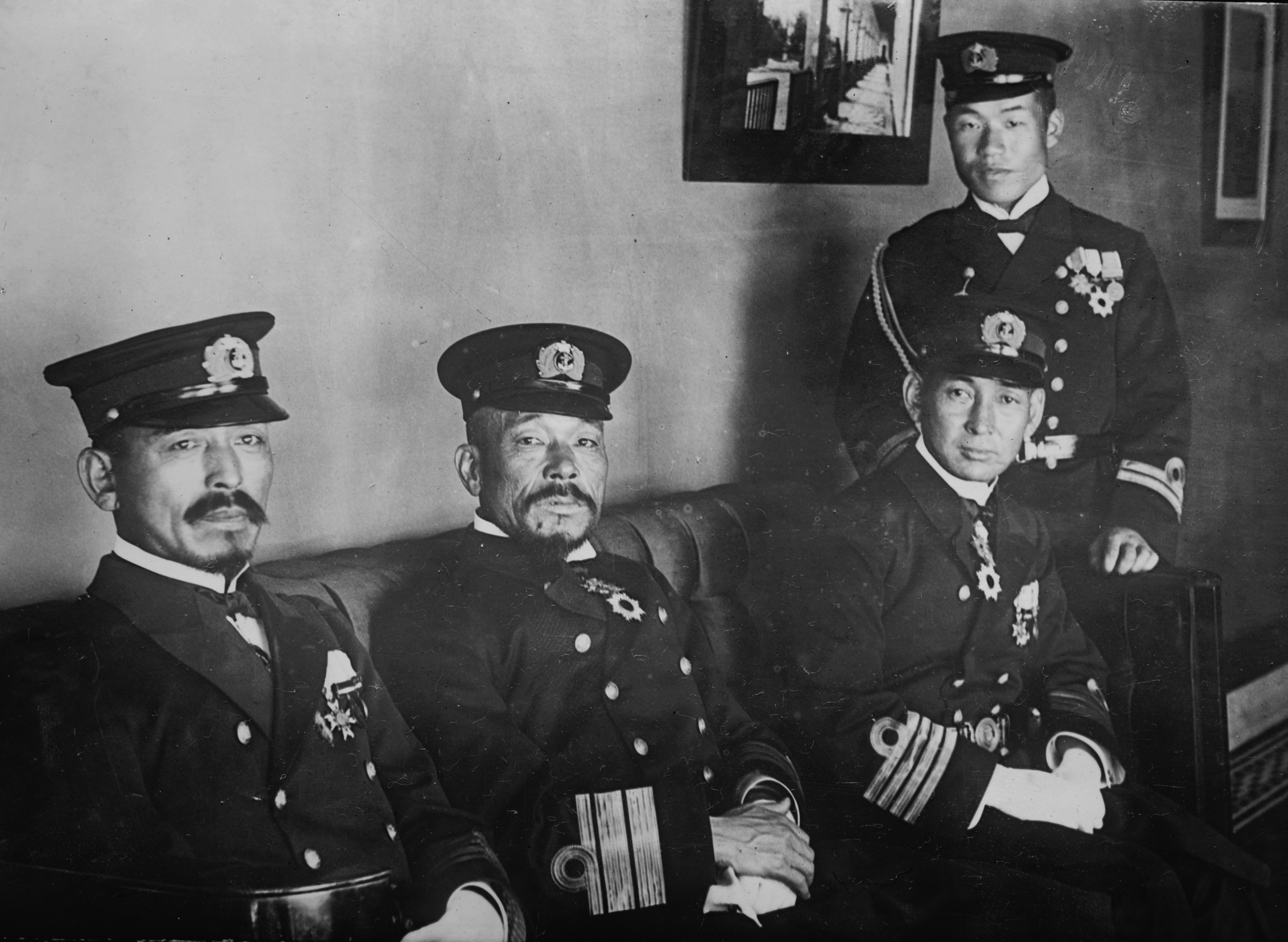 Japanese Naval officers: left to right, Capt. G. Ishii (Gitarō Ishii, 石井義太郎), Adm. Ijichi (Hikojirō Ijichi, 伊地知彦次郎), Capt. T. Sato and Flag Lieut. Shimomura (Nobutarō Shimomura, 下村延太郎).